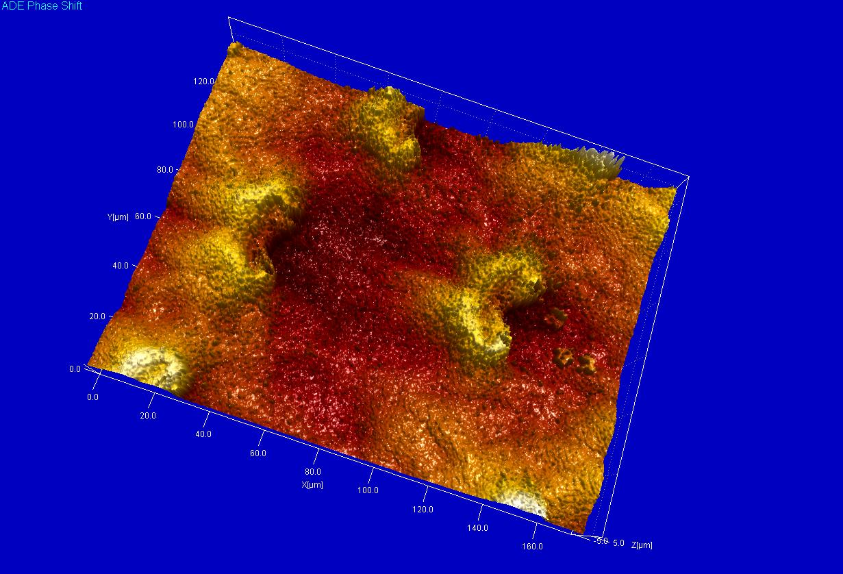 Lunate cells of Nepenthes khasiana obtained by Scanning White Light Interferometer (SWLI).